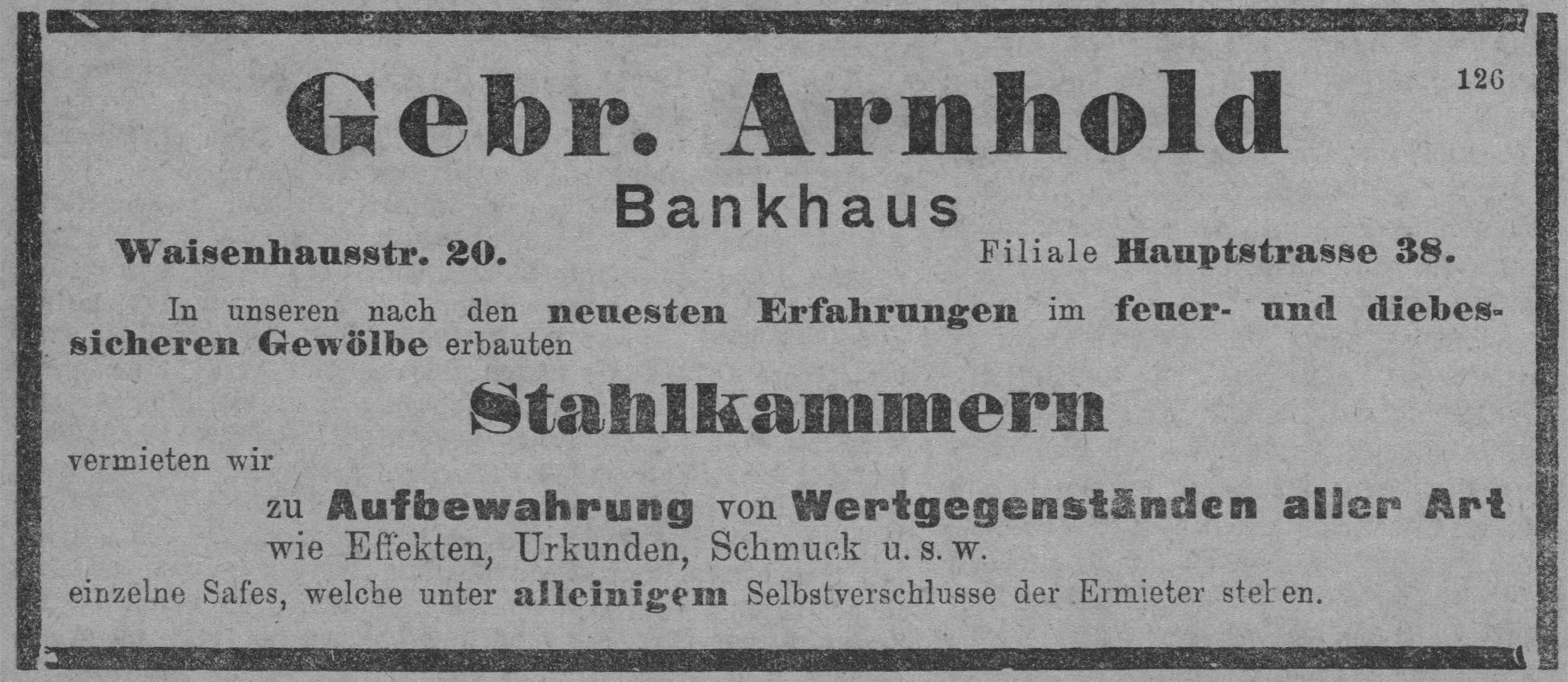 Scan from the Dresdner Journal, 1906